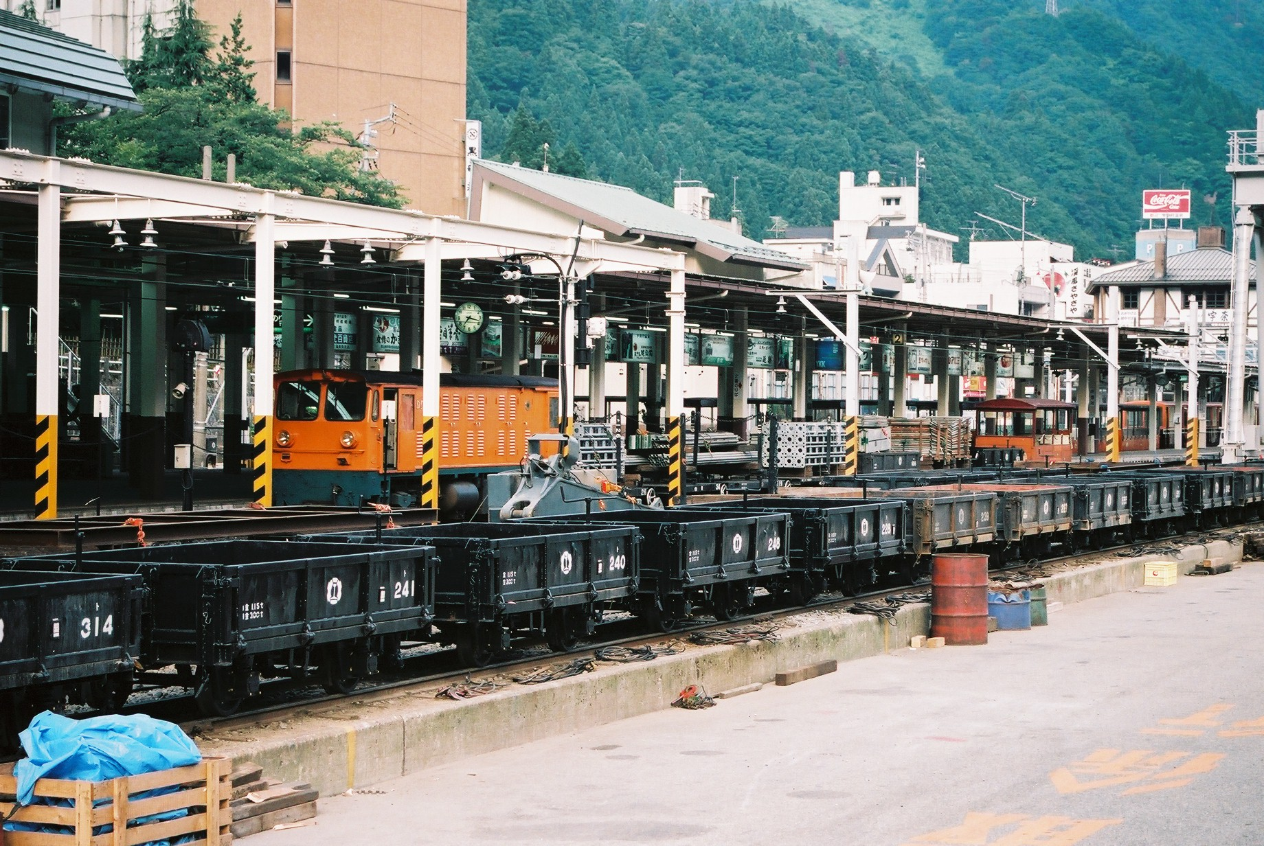 Freight cars of the Kurobe Gorge Railway at Unazuki Station